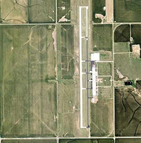 USGS digital orthophoto of El Reno Regional Airport in Oklahoma